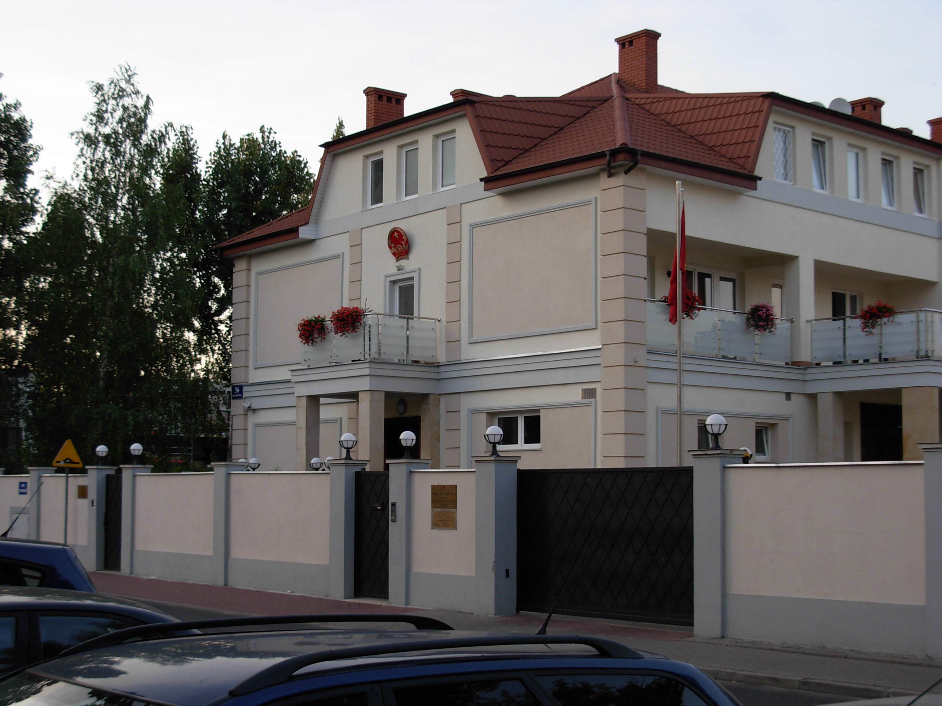 Embassy of Vietnam in Warsaw